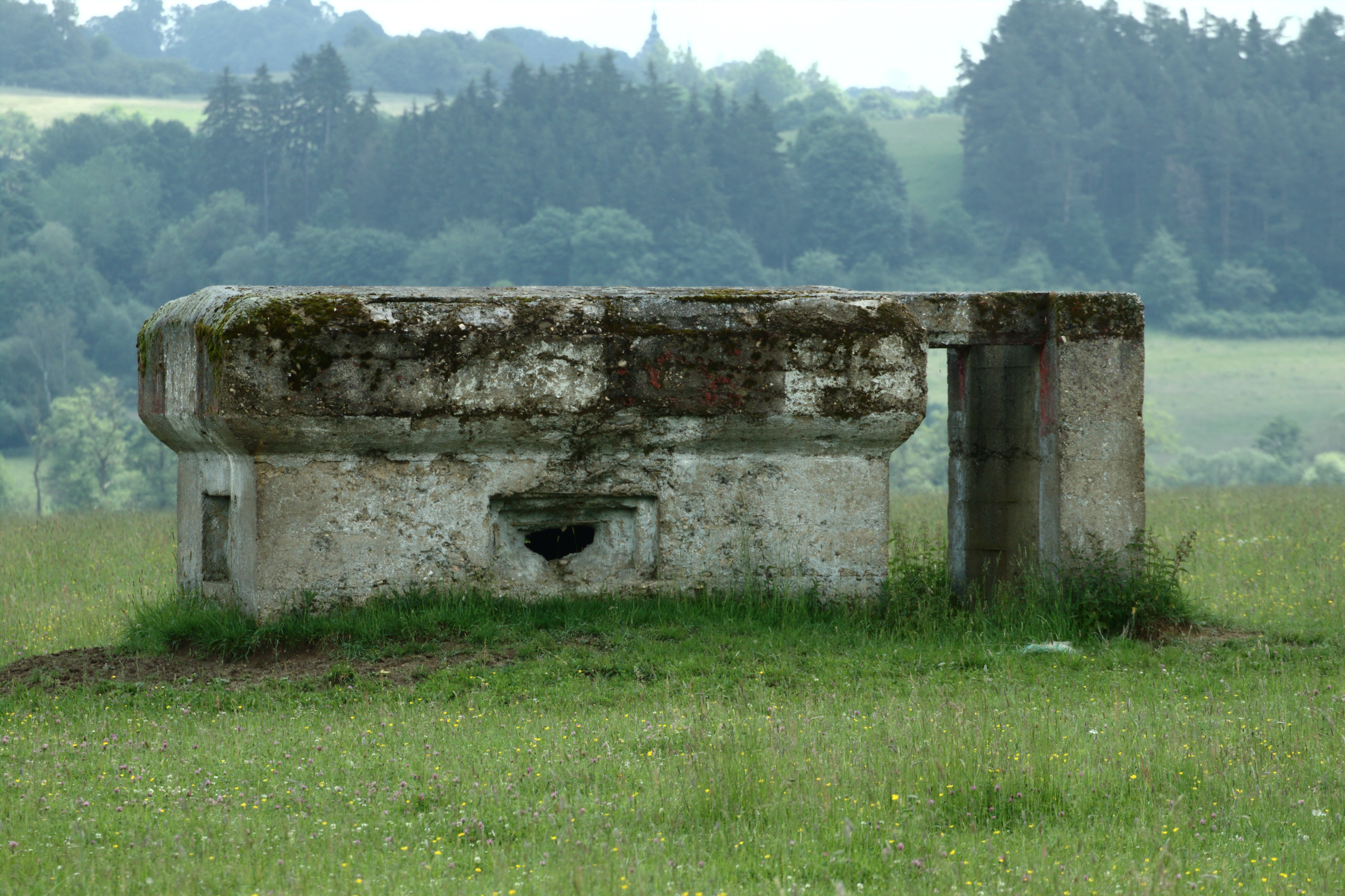 A pillbox at Mariánské Lázně former airport, CZ